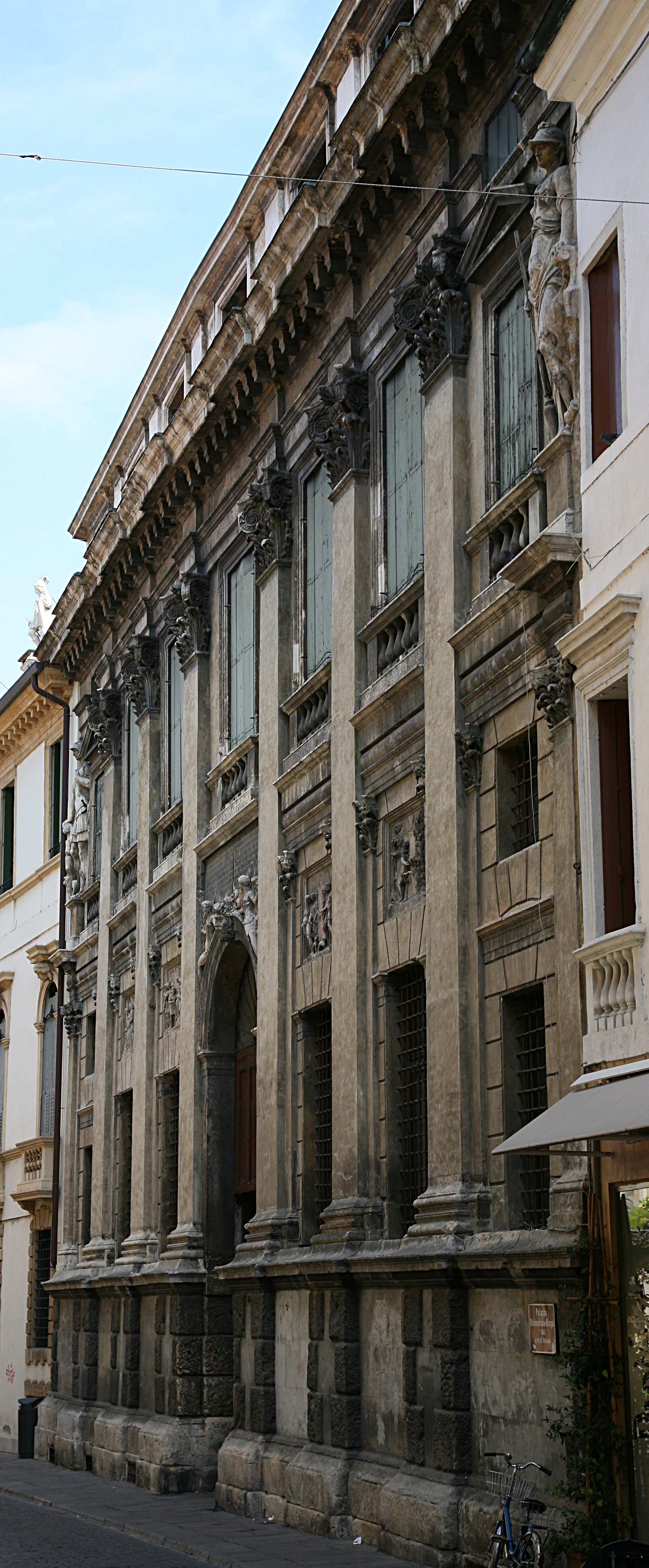 Palazzo Valmarana Braga in Vicenza by Andrea Palladio